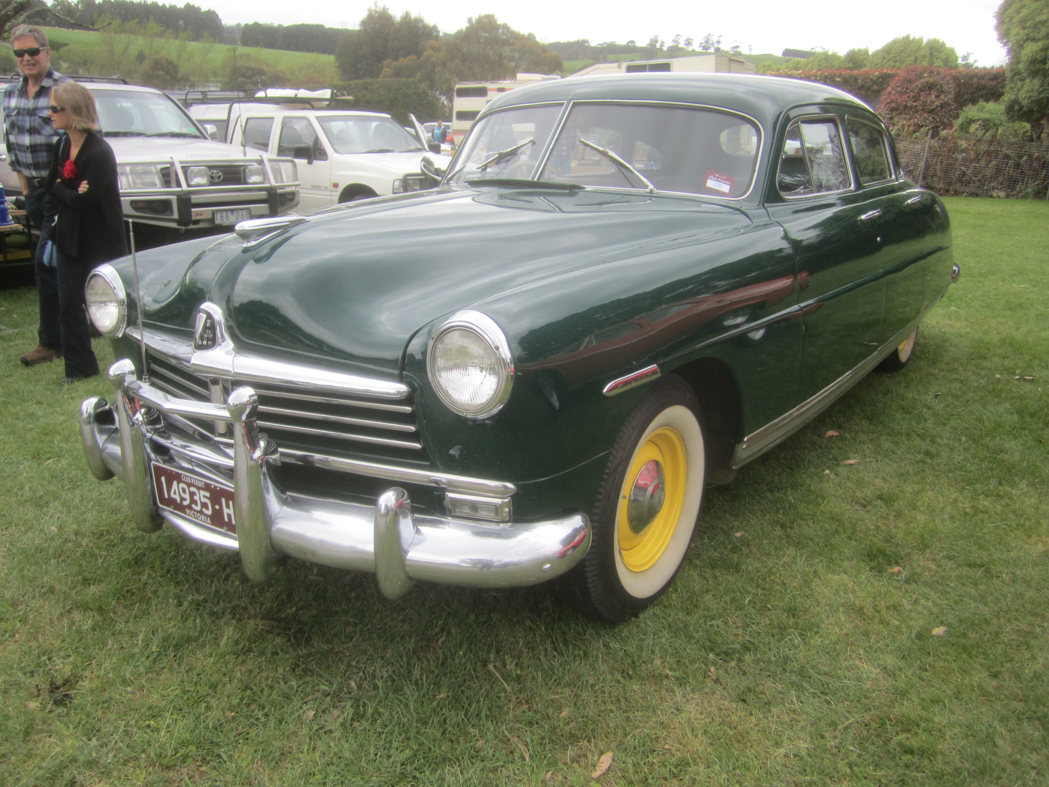 The Hudson Commodore was produced from 1941 and 1952, it was the largest and most luxurious Hudson model. This is the 1948-52 3rd and last generation, the new style got a light, but strong semi-unit body with a perimeter frame. Because of the encircling frame, passengers stepped down into the vehicles. Avaialble in Sedan, Coupe and Convertible Engines; 202 cu in 6 or 254 cu in in line 8